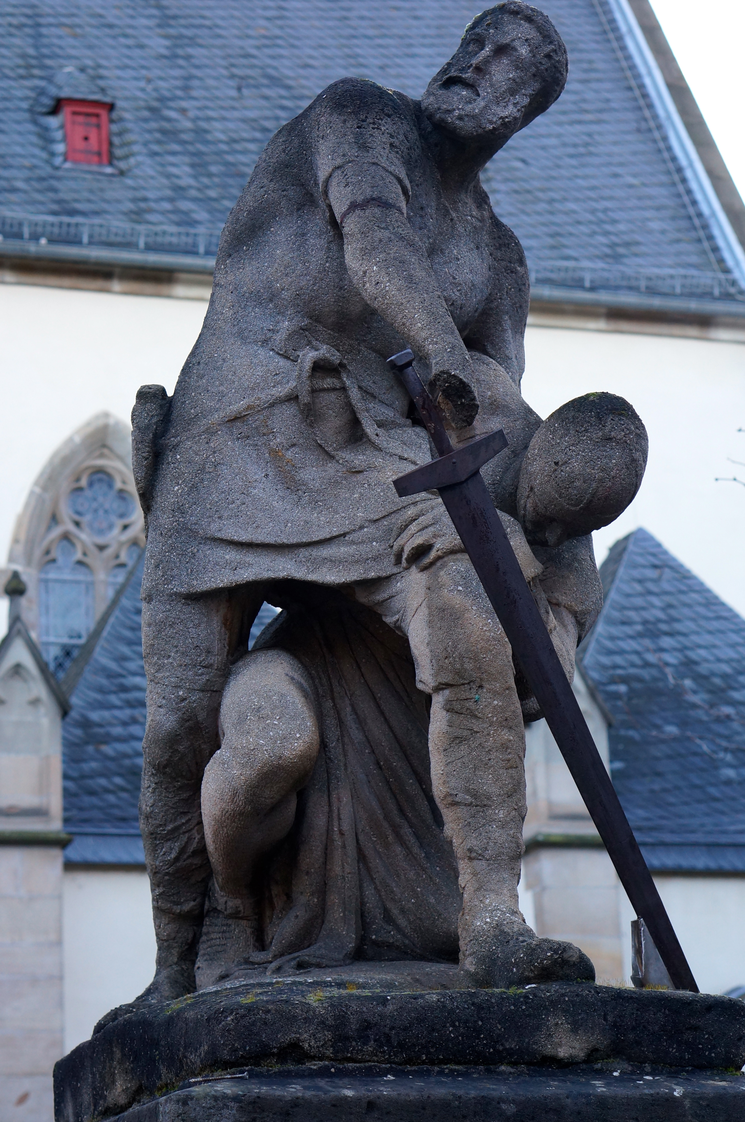 Statue of Michel Mort created by Robert Cauer the Younger.